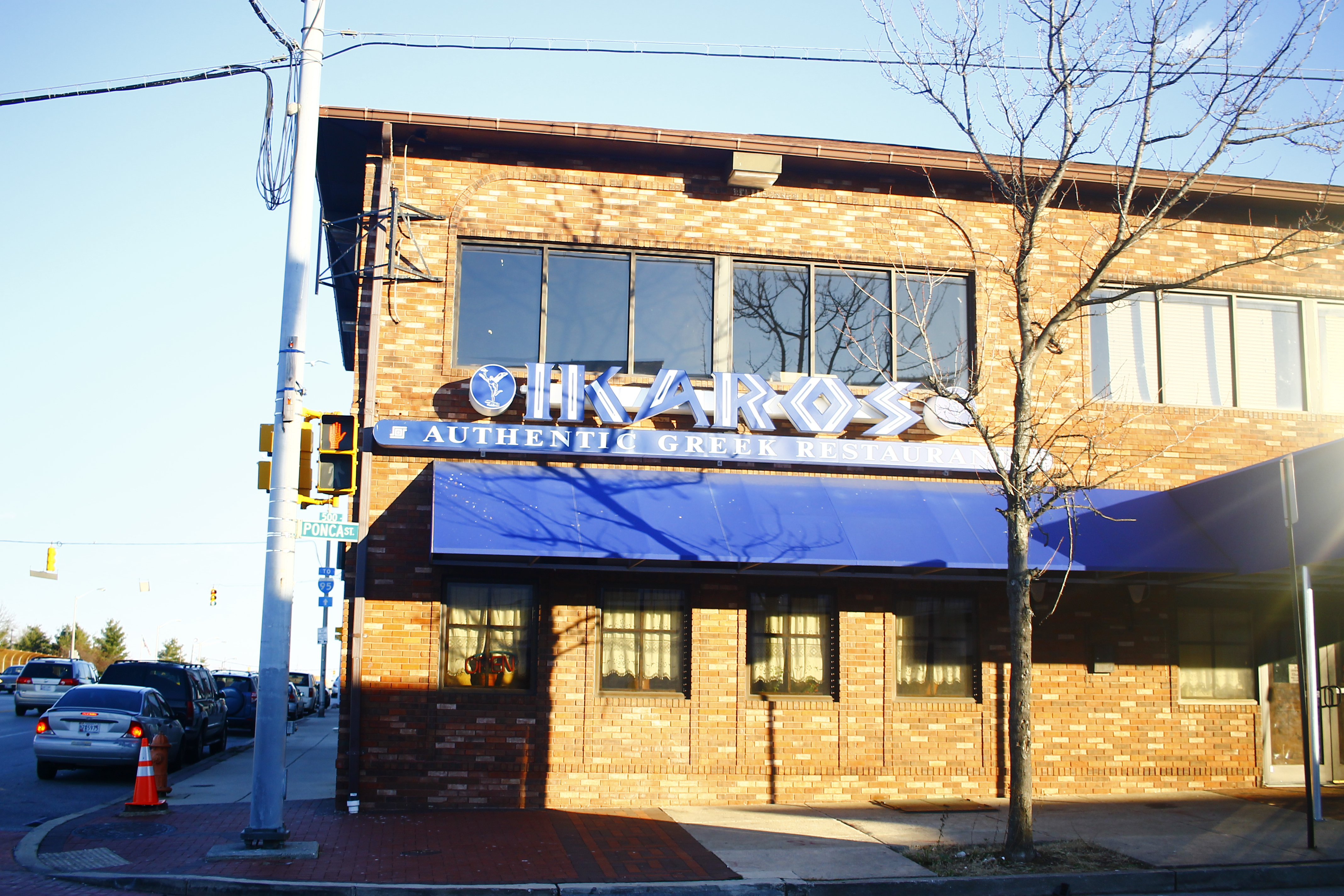 Ikaros Restaurant, Greektown, Baltimore.